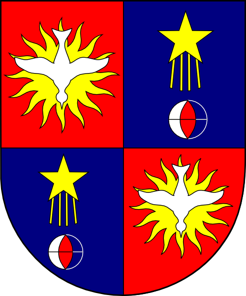 Coat of arms (shield only) of Karel Boromejský cardinal Kašpar, bishop of Hradec Králové, Czech Republic (1921 - 1931), archbishop of Prague (1931 - 1941). Arms used in Hradec Králové.